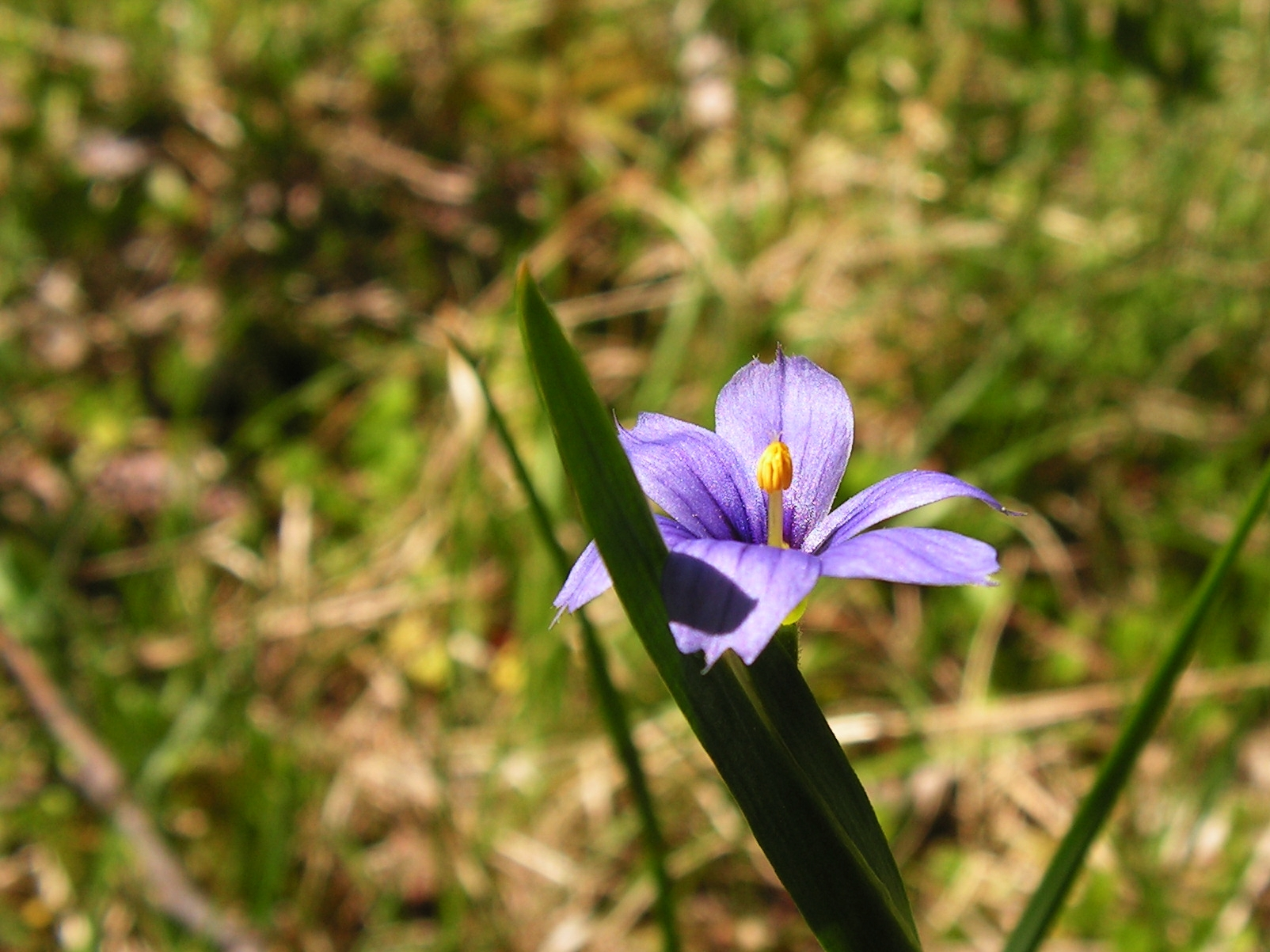 Sisyrinchium montanum, flower, Port-au-Saumon, Quebec